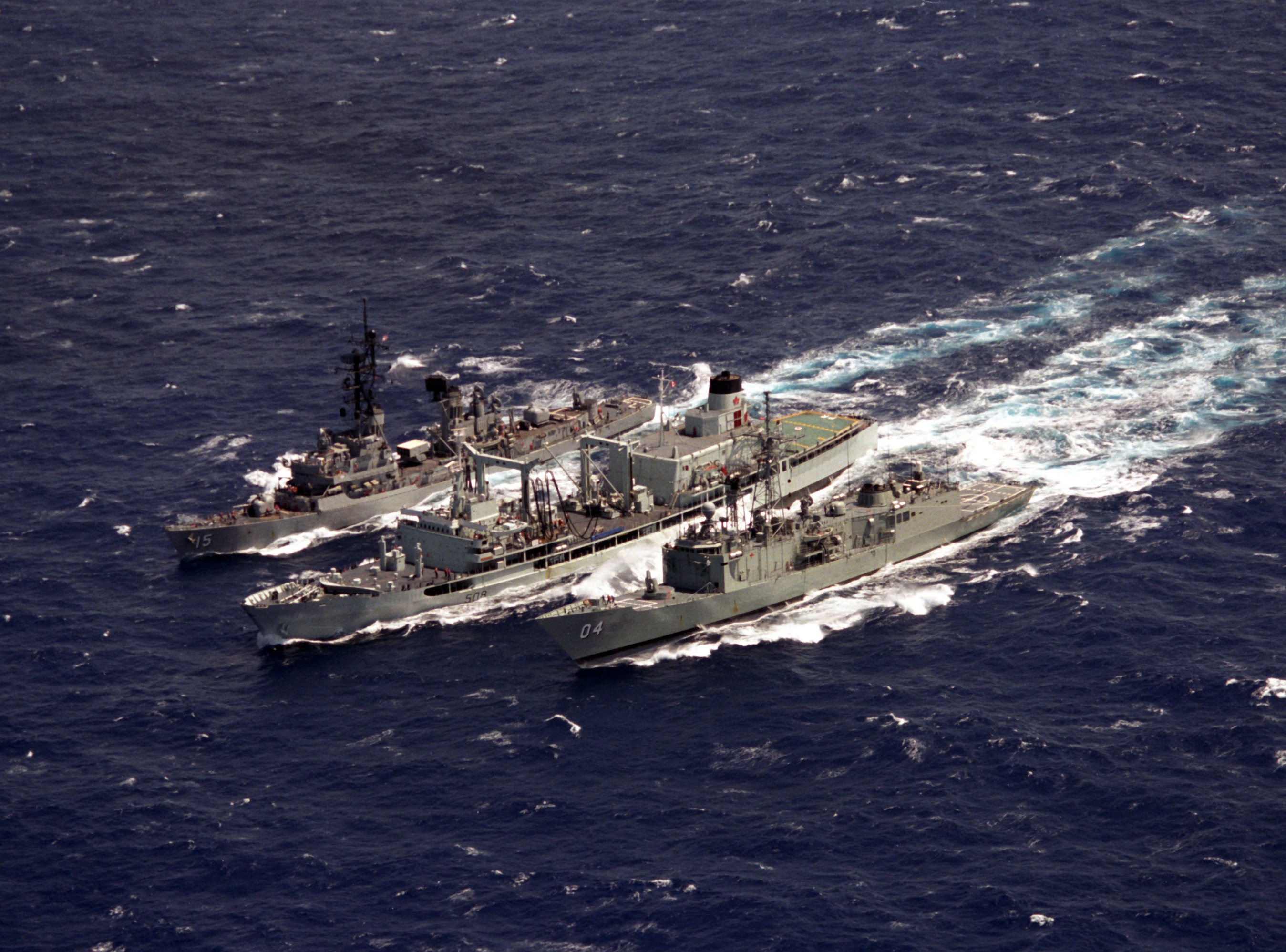 The Royal Canadian Navy replenishment oiler HMCS Provider (AOR 508) refueling the Royal Australian Navy guided missile frigate HMAS Darwin (FFG 04) and the U.S. Navy guided missile destroyer USS Berkeley (DDG-15), during exercise "RIMPAC '86".